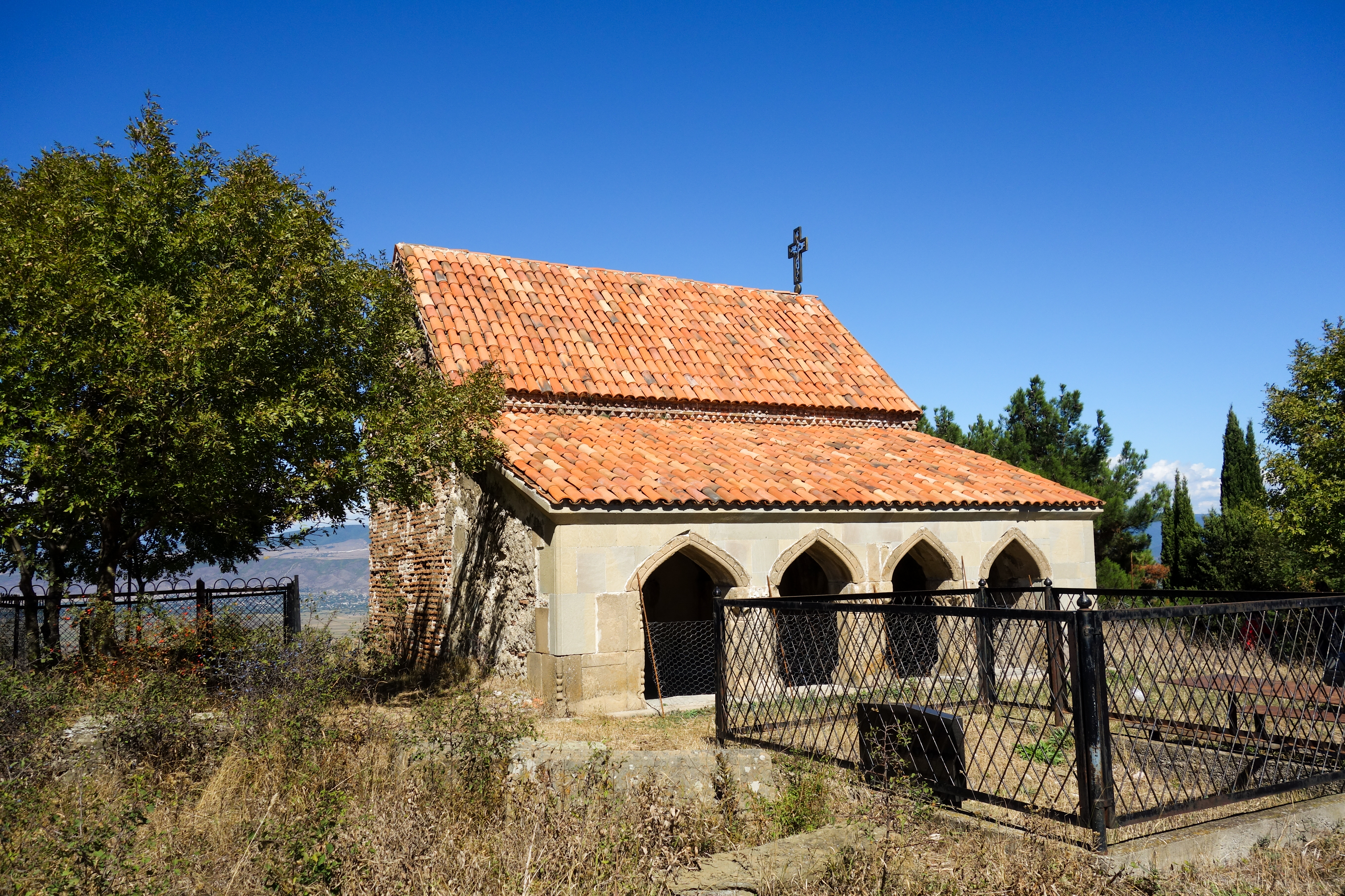 Kviratskhoveli Church, Skhaltba, Mtskheta-Mtianeti, Georgia